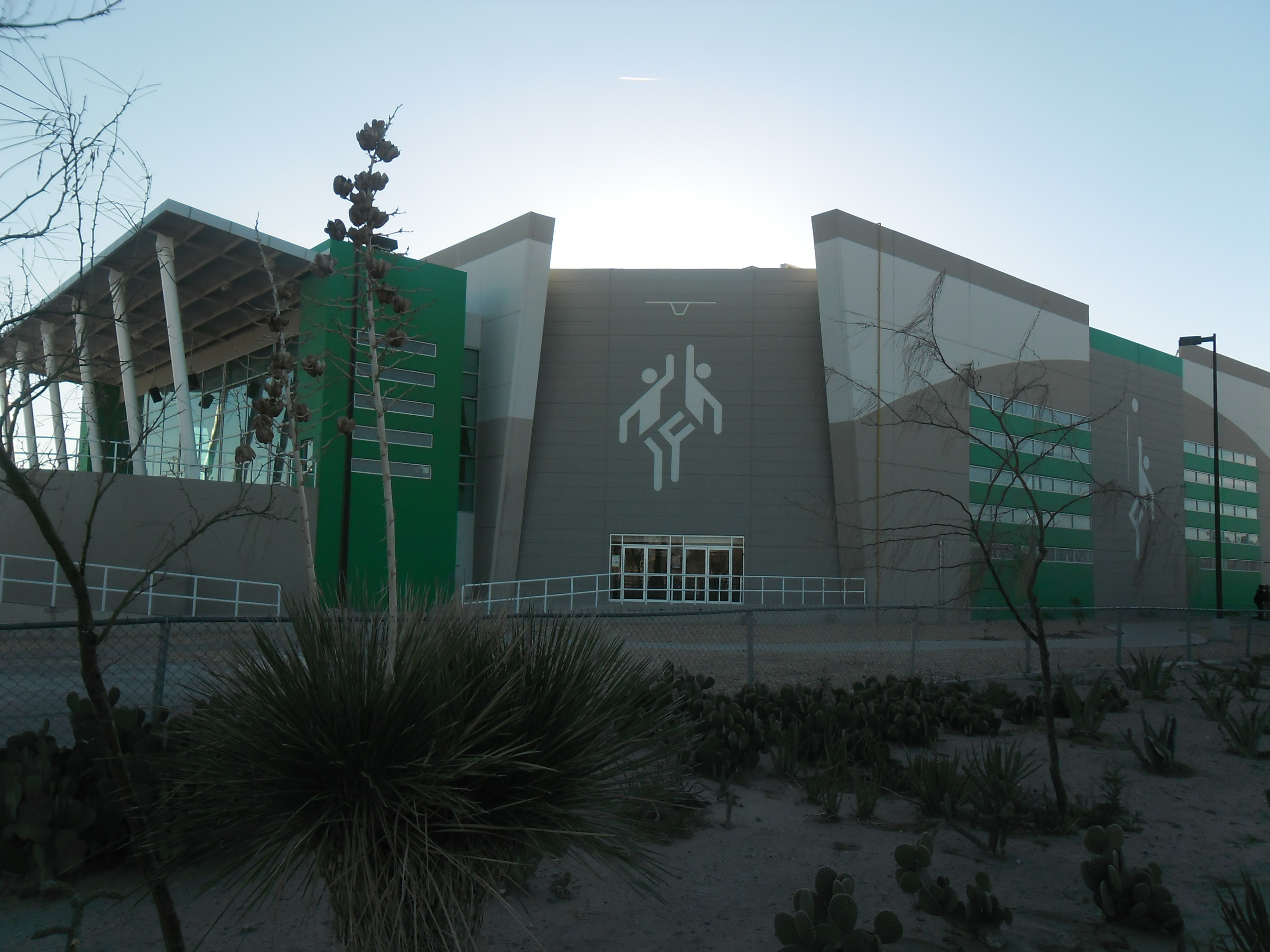 Parque Central